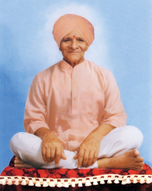 Shri Smarth Sadguru Muppin Kadsiddheshwar Maharaj 26th Mathadheepati of the (Siddhagiri) Kaneri Math